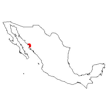 approximation of the territory of the mayo people. Public domain map outline modified by uploader.